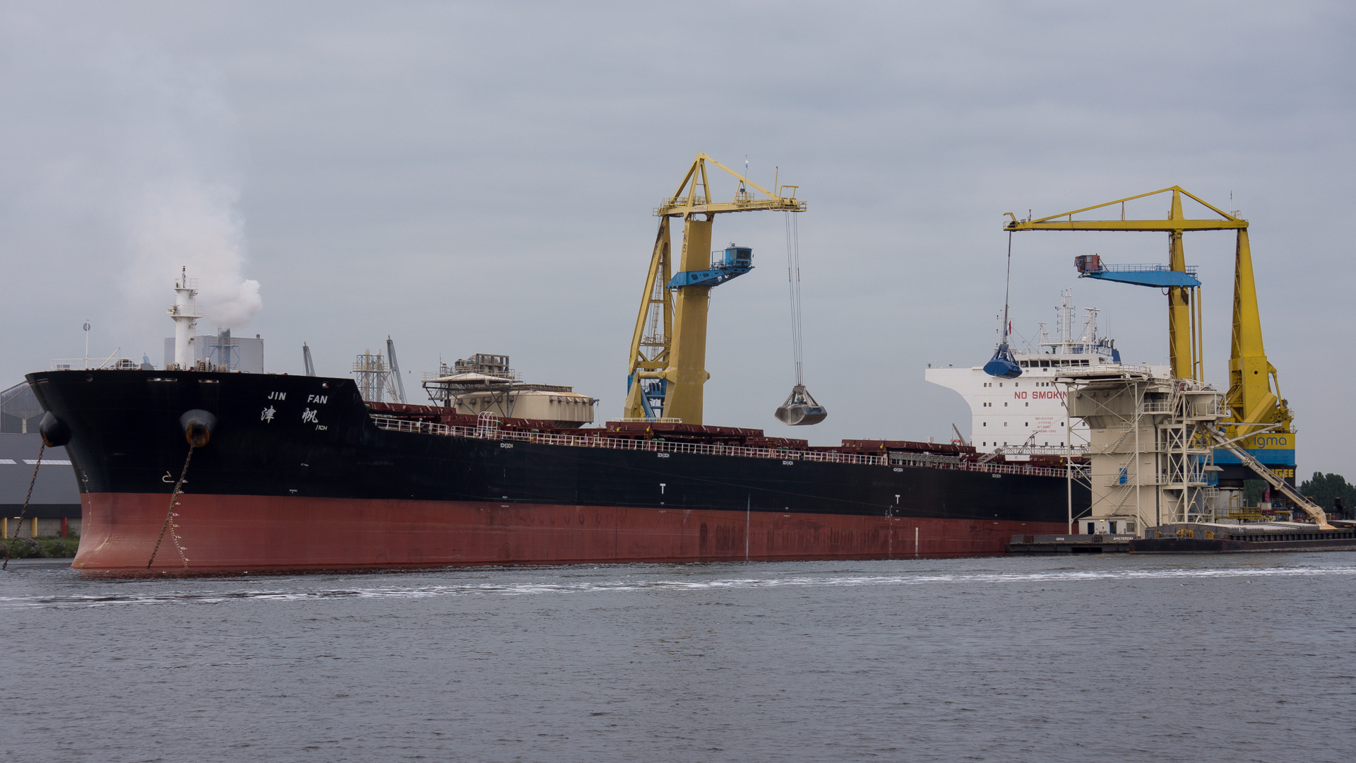 Jin Fan (previously CENTRANS EUNOMIA) in the Port of Amsterdam